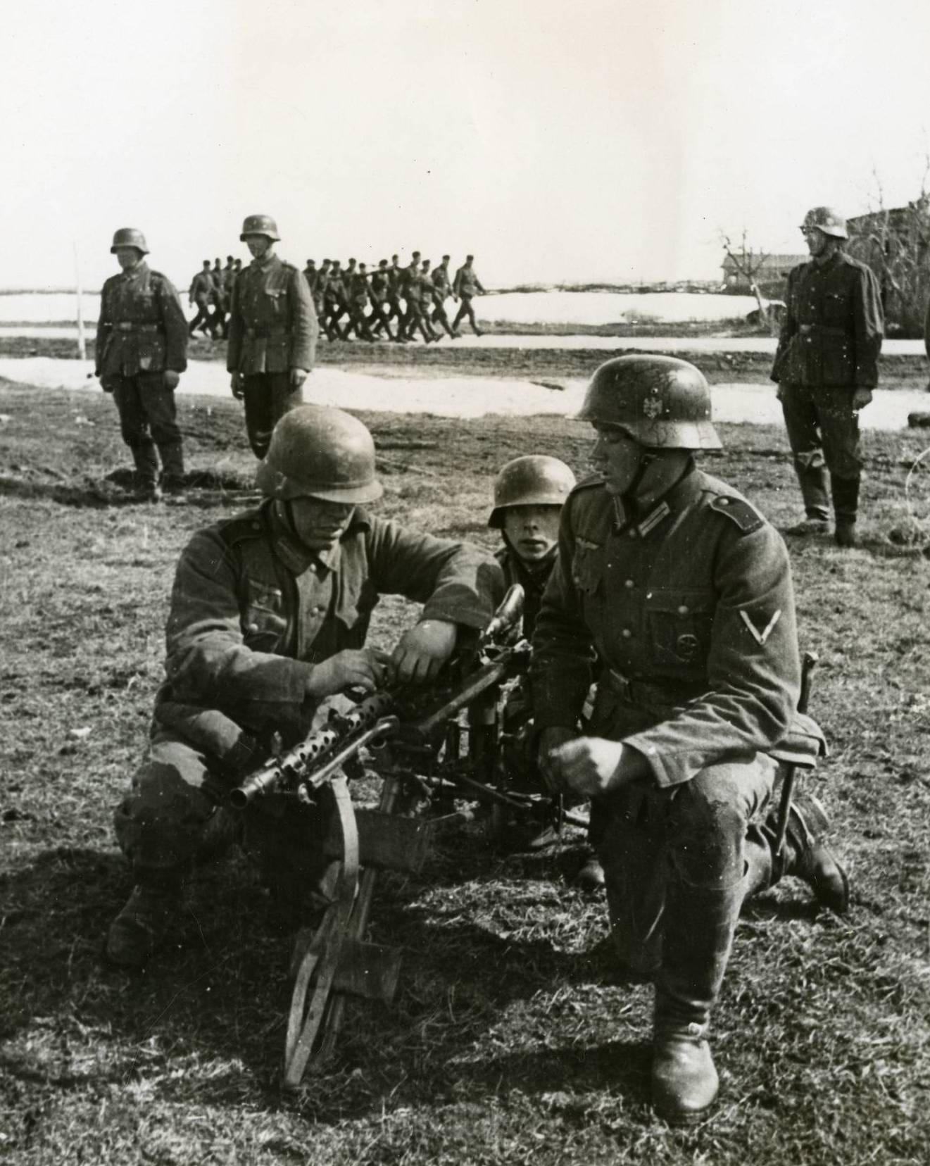 Soldiers of the Blue Division during training for the Eastern Front (1941).